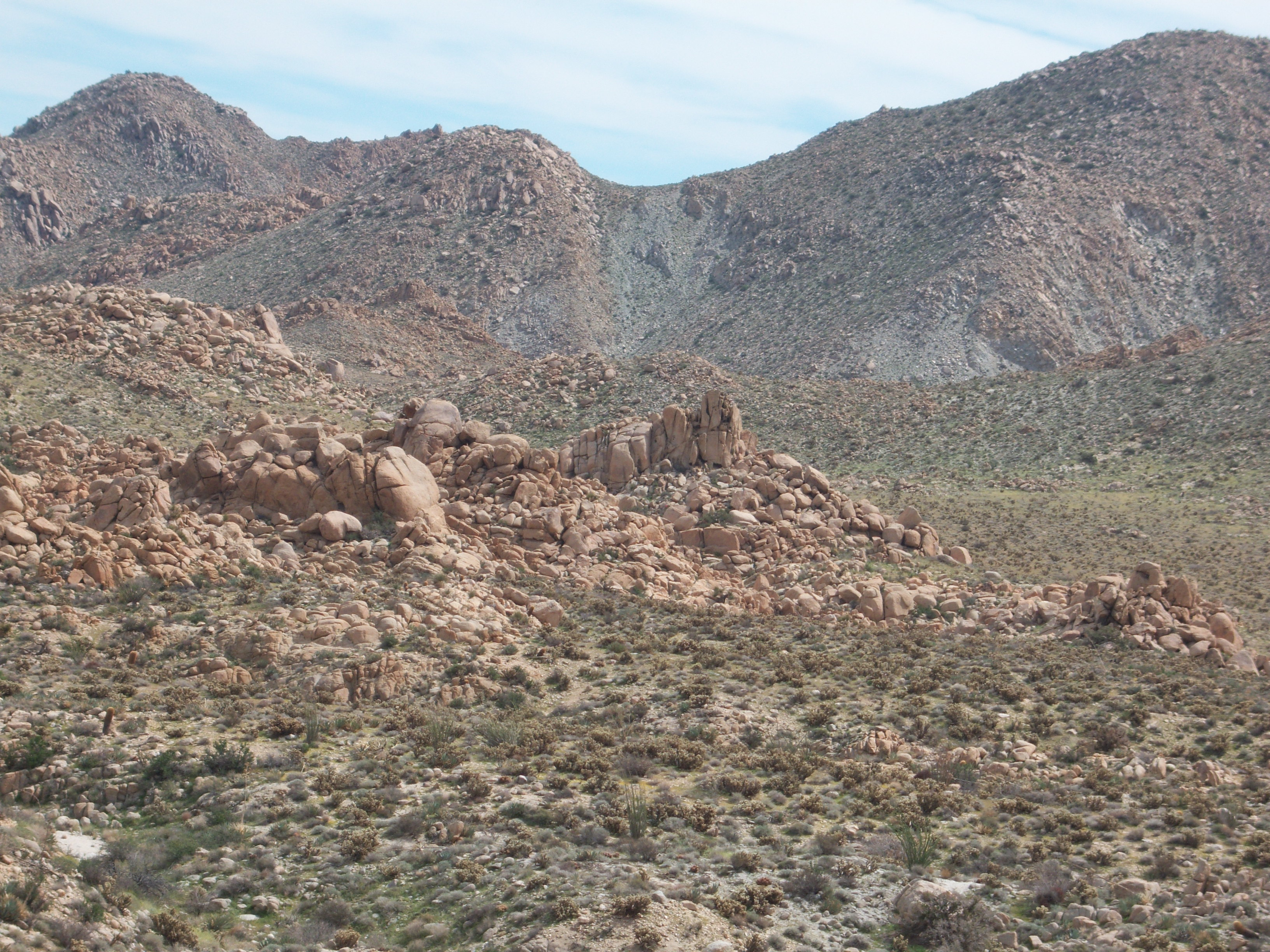 Jacumba Mountains — near Jacumba, in San Diego County, California. Granite rock formations.